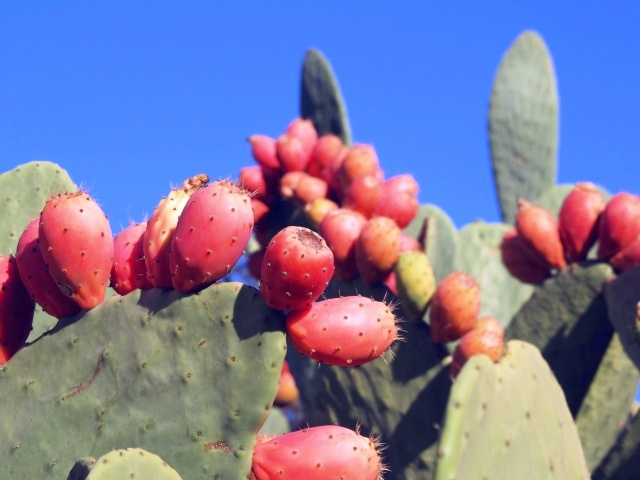 Luther Burbank Spineless Cactus in Santa Rosa, California